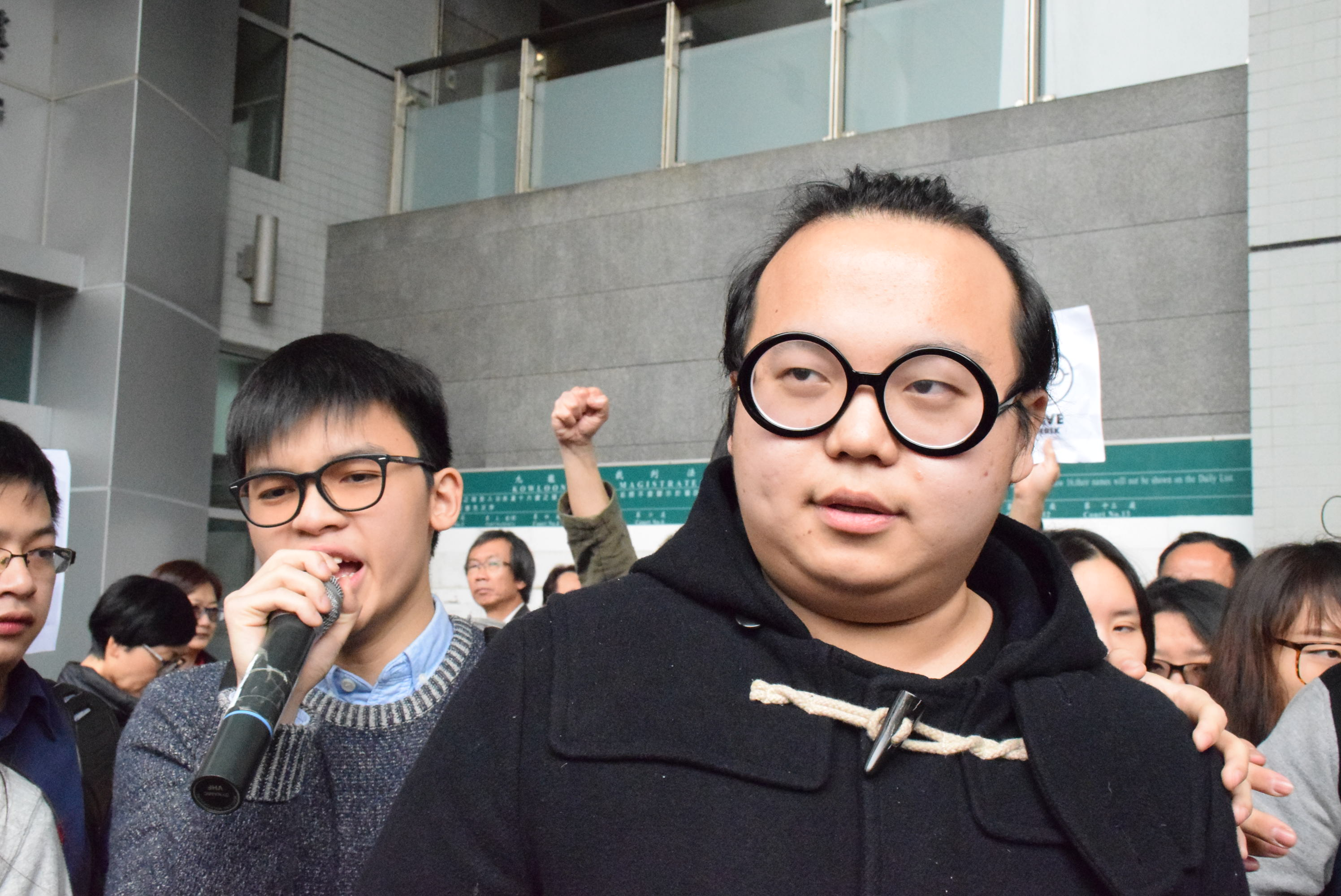 Oscar Lai and Lam Shun-hin